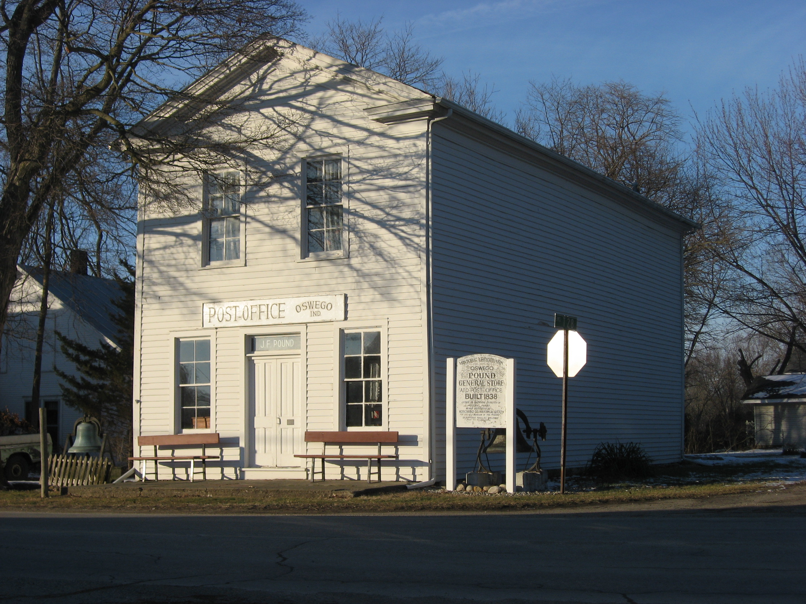 Front and eastern side of the John Pound Store, located on the northwestern corner of the junction of Second Street and Armstrong Road in Oswego, Indiana, United States. Built in 1838, it is listed on the National Register of Historic Places.